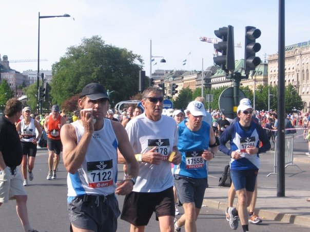 Running in the Stockholm Marathon near the Royal Palace in Gamla stan, Stockholm, Sweden.